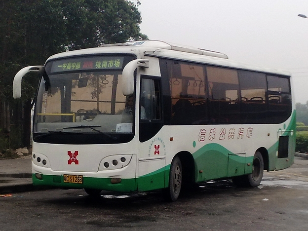 Zhuhai bus no.301